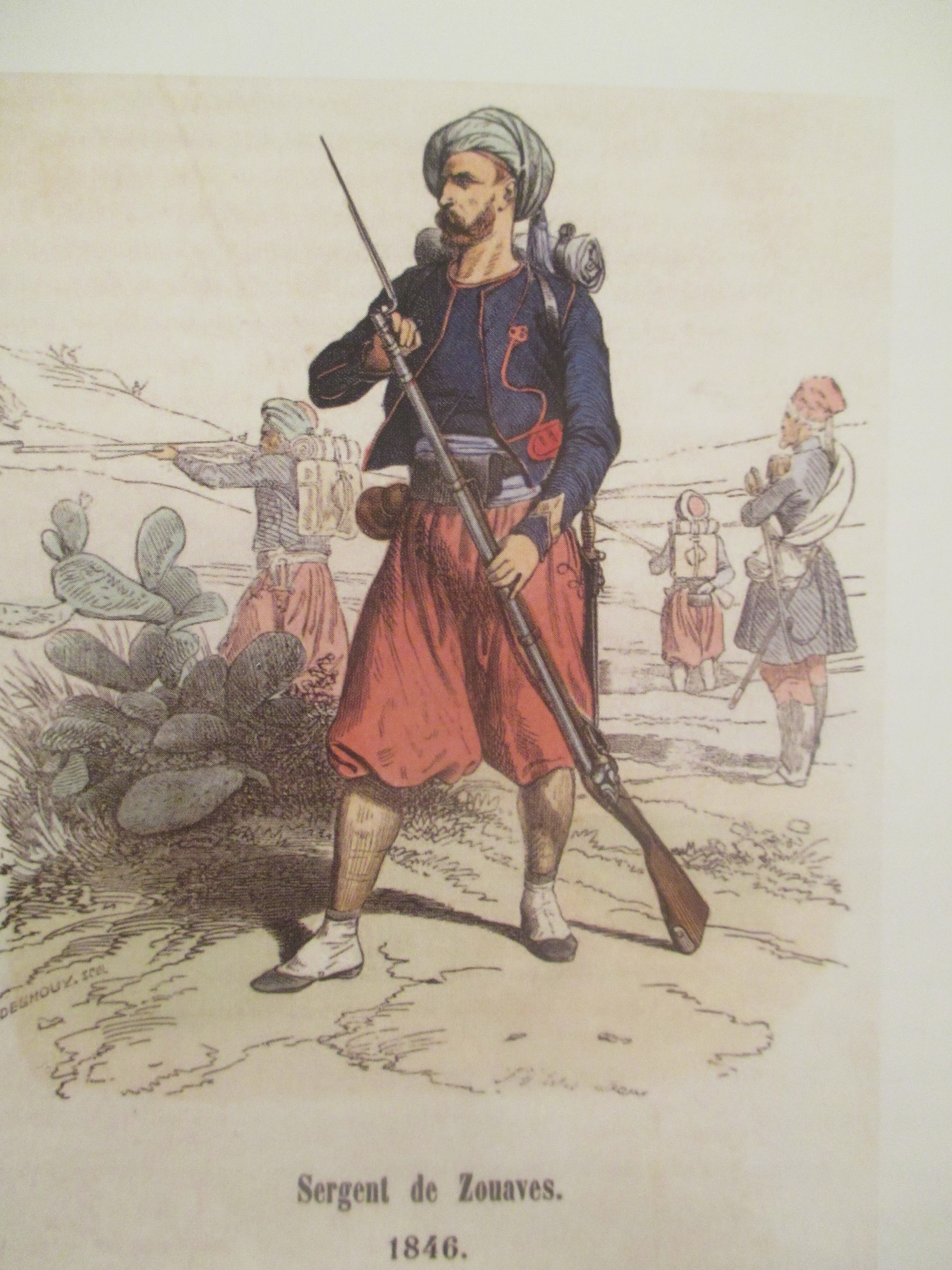 French Zouave.